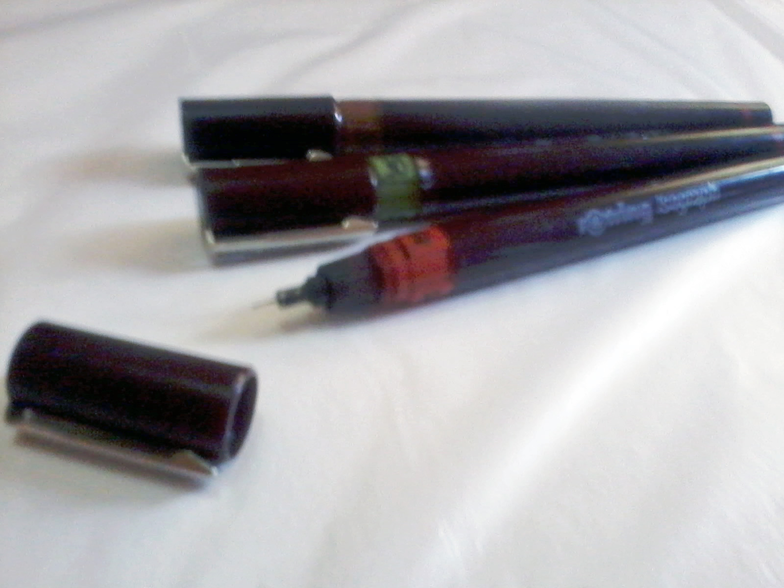 Set of Rotring technical pens:points 0.1, 0.3 and 0.5